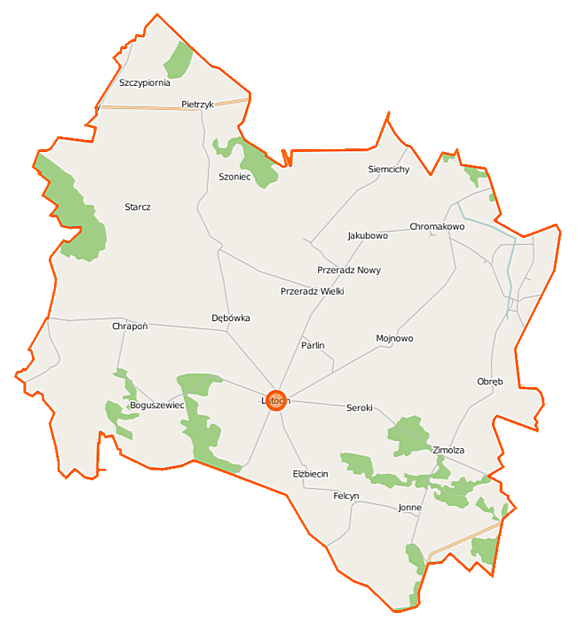 Map of Gmina Lutocin, Poland This map of Lutocin (gmina) was created from OpenStreetMap project data, collected by the community. This map may be incomplete, and may contain errors. Don't rely solely on it for navigation. Border coordinates53.074619.6593←↕→19.882552.9275